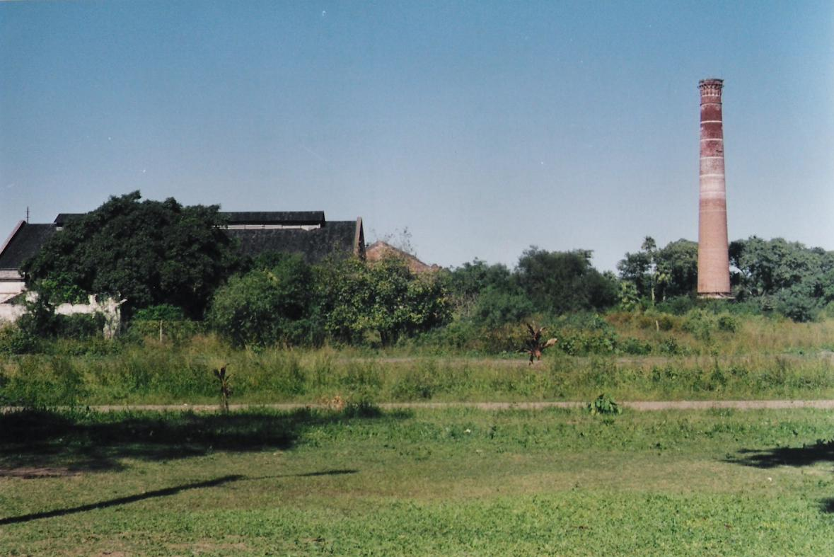 A non-working factory and its chimney in Fontana, Chaco, one block away from the main square.